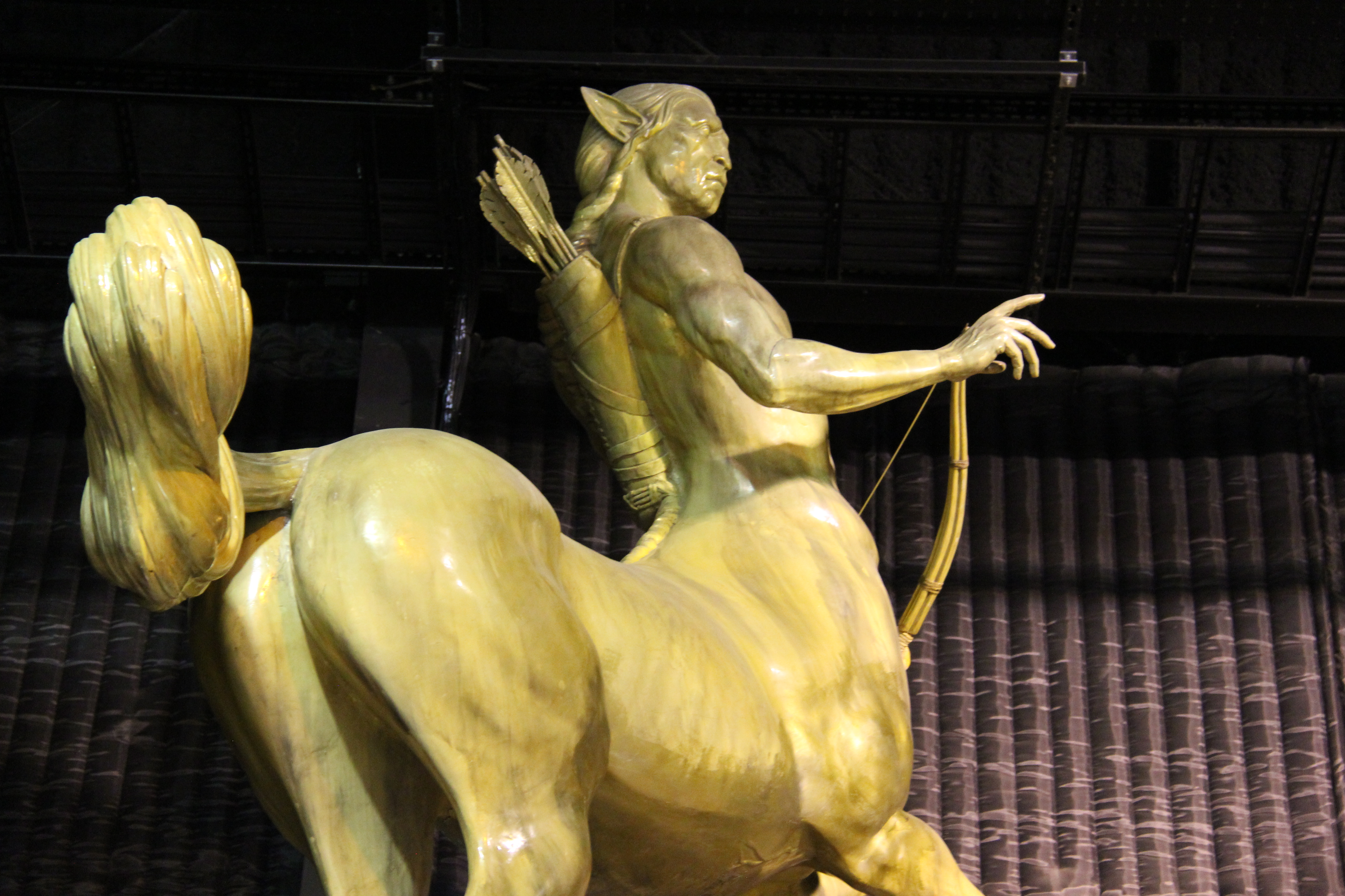 Centaur (Harry Potter Studio Tour - July 2013)